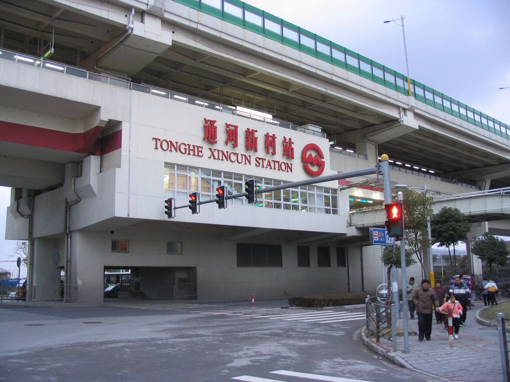 通河新村站 Tonghe Xincun Station